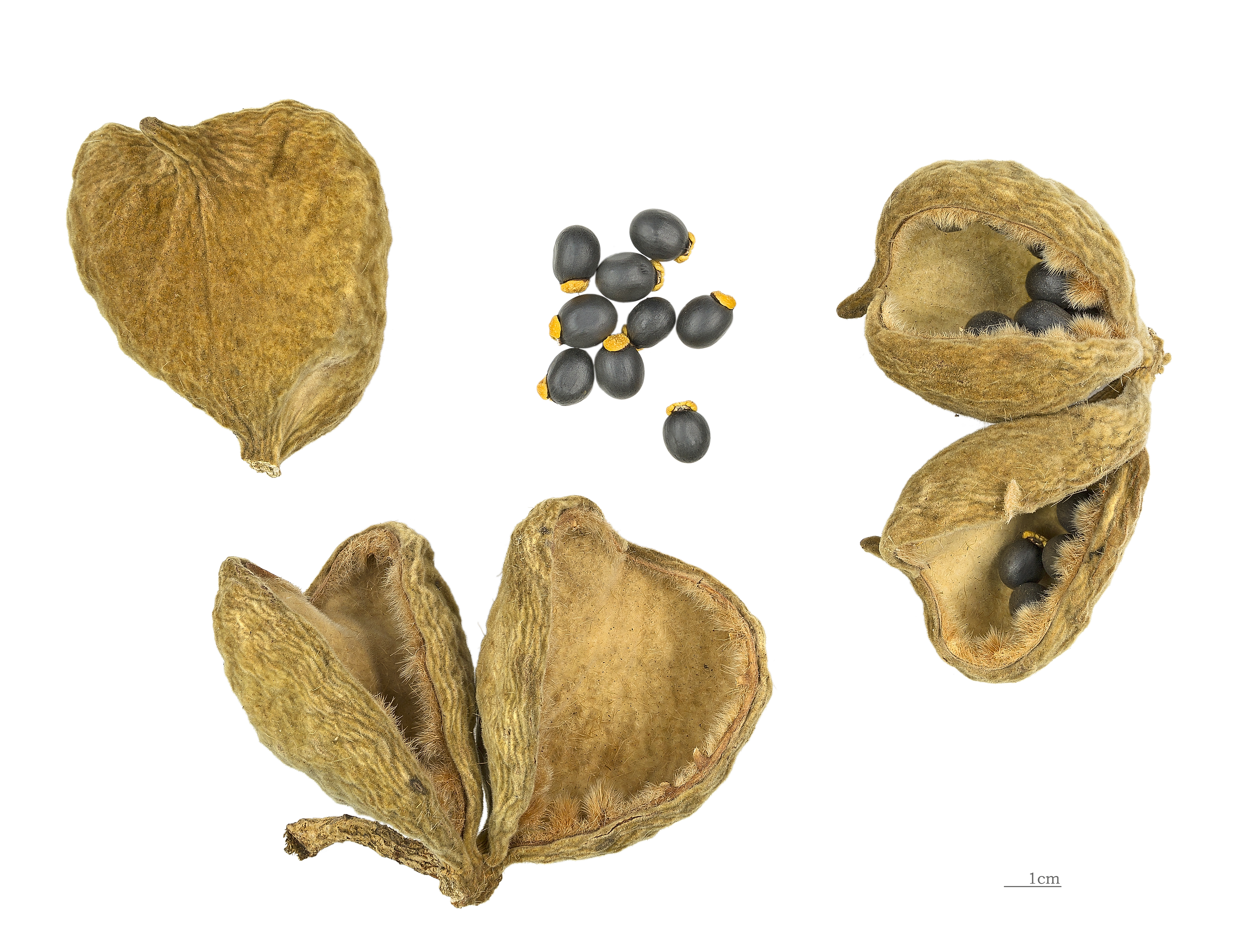 Sterculia setigera, Fruits and seeds. Provenance : Pendjari National Park, Benin